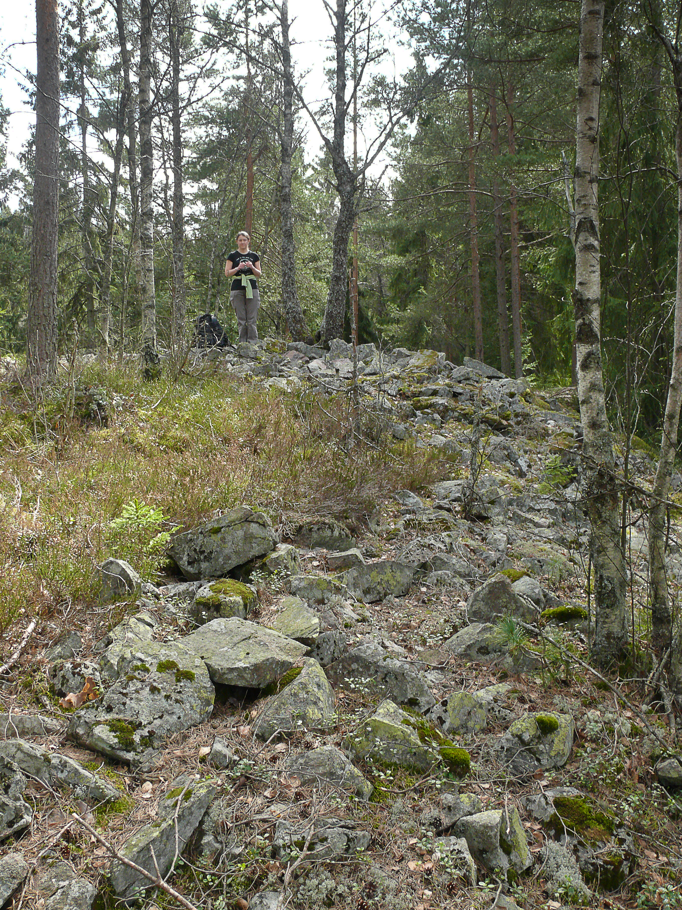 Hillfort near Maridalsvannet, Oslo, Norway